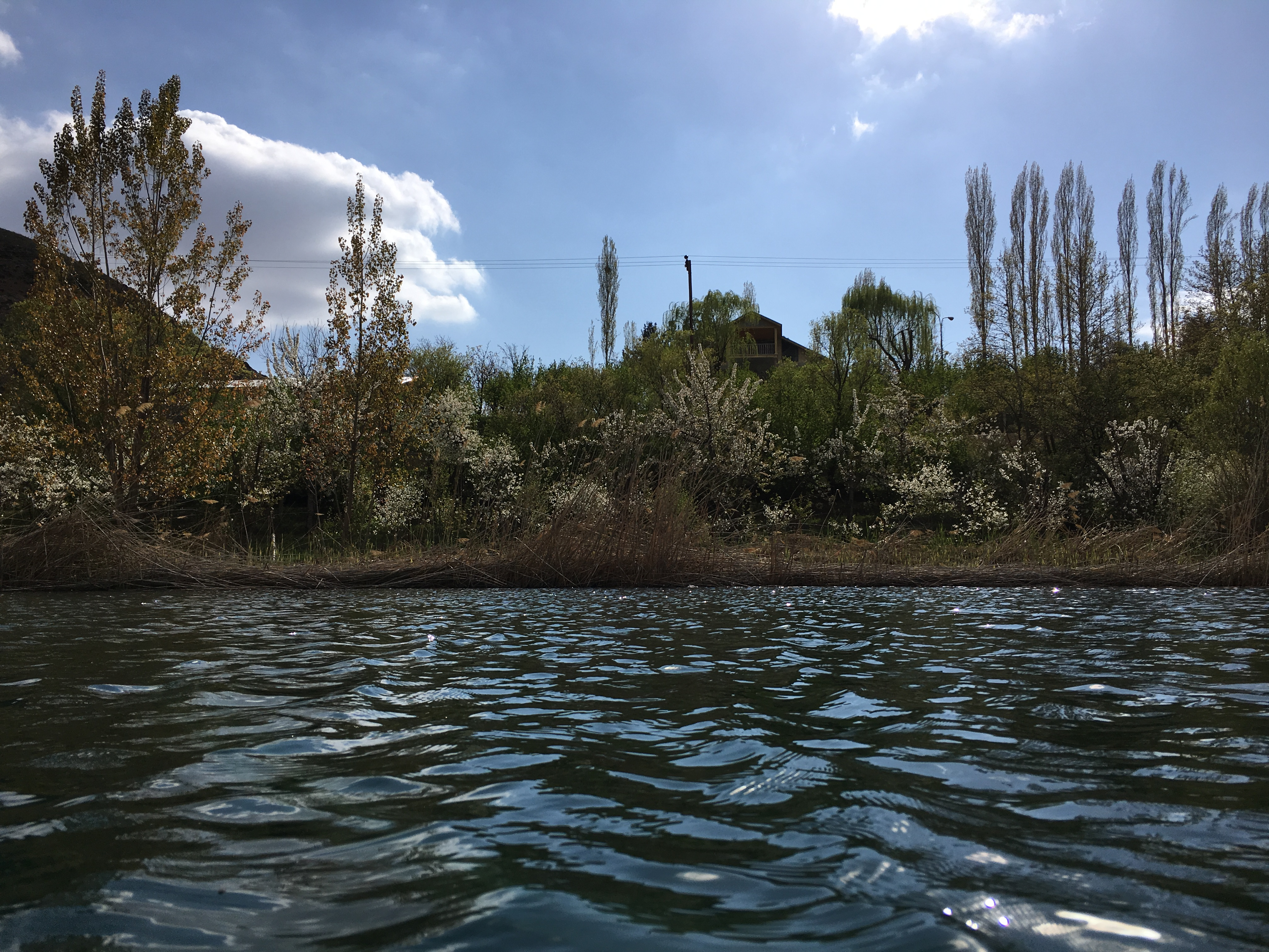 Ovan Lake by M-MI